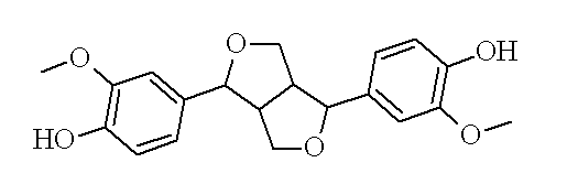 Chemical structure of pinoresinol